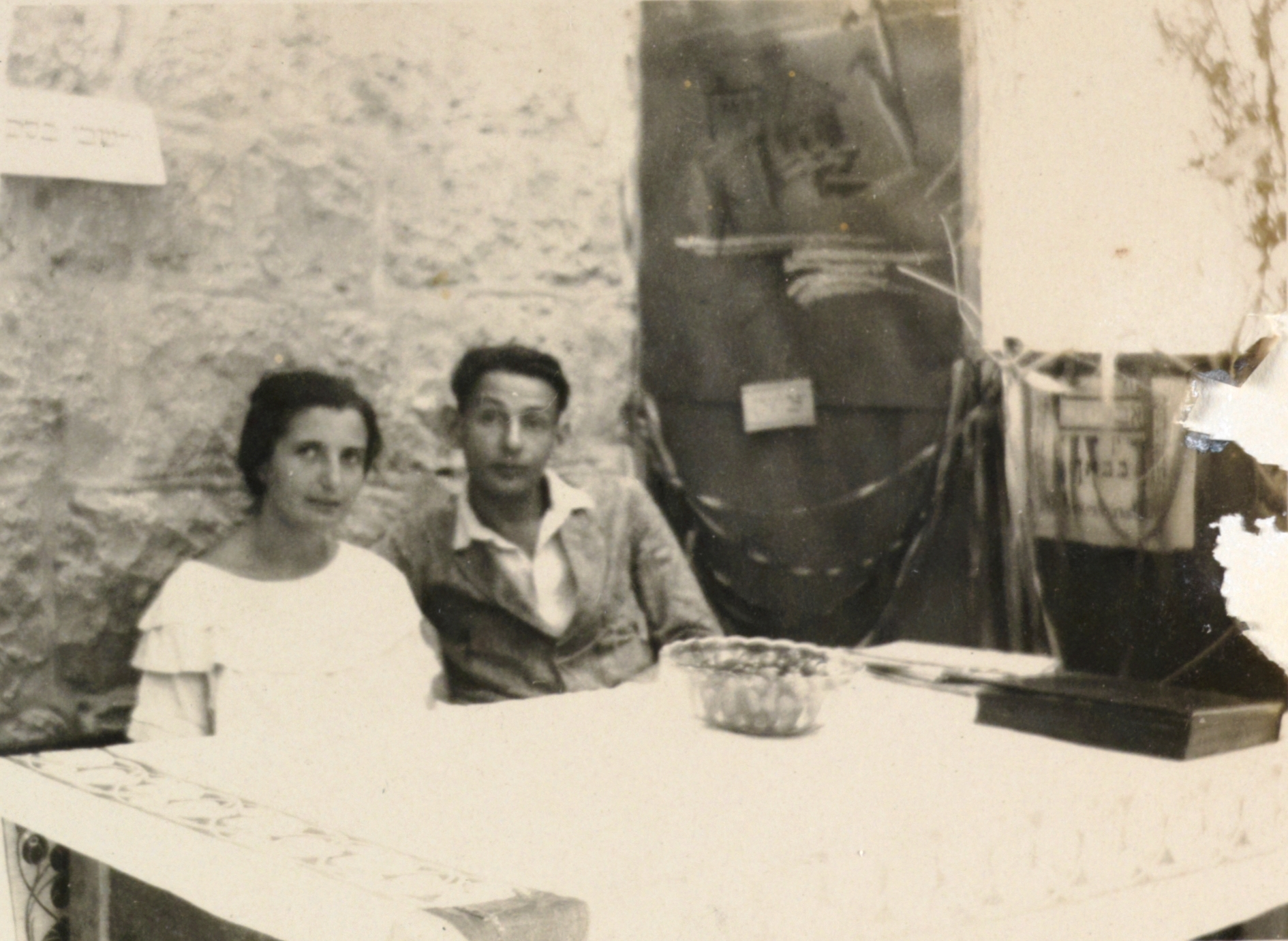 Gershom Scholem sitting in Sukka learning Zohar, with Esha Depicted people: Gershom Scholem and Esha